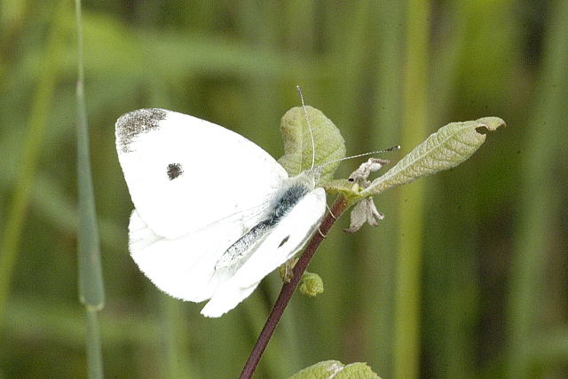 Picture taken in Commanster, Belgian High Ardennes . Species: Pieris rapae male